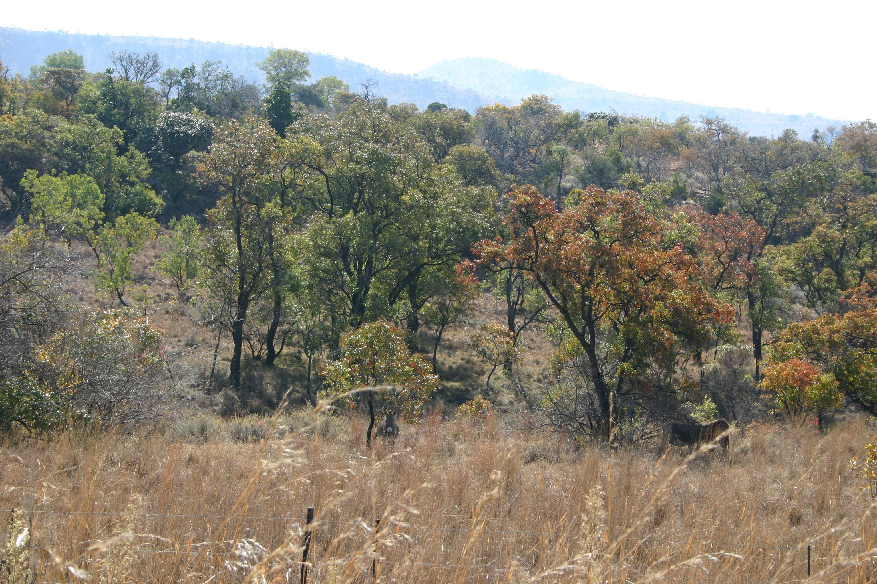 Autumn colours of Faurea saligna, Magaliesberg, South Africa